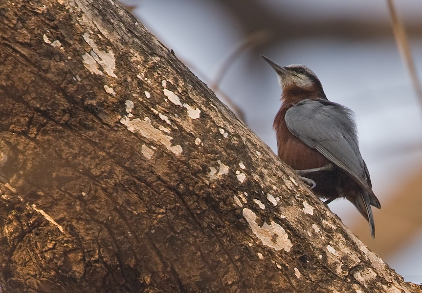 Indian Nuthatch Sitta castanea At Dandeli, India. Photograph by Subramanya CK.